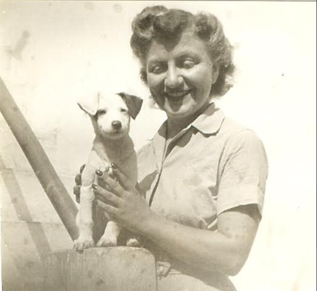 Lt. Aleda E. Lutz with a small dog